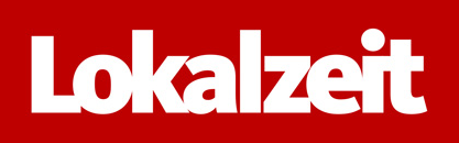 This is the Logo of Lokalzeit since September 4th 2016